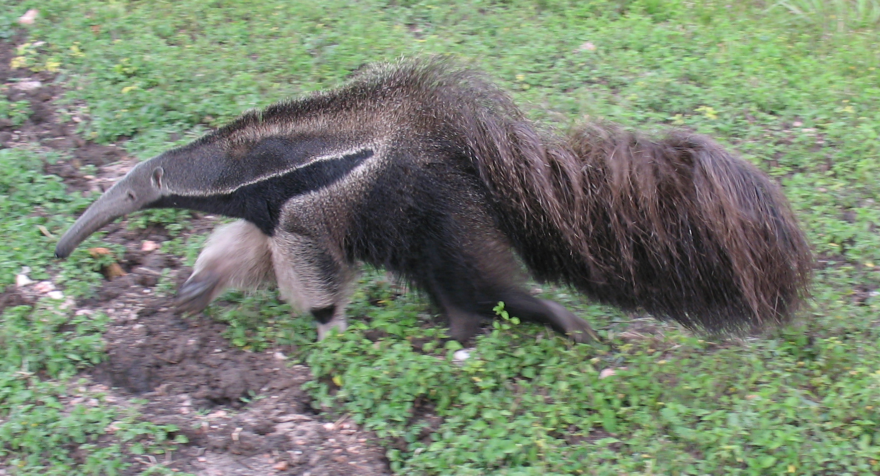 Giant Anteater (Myrmecophaga tridactyla) in the Pantanal region, Brazil